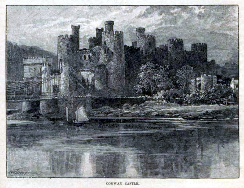 Conwy Castle - Conwy - Wales Illustration from Cassell's History of England - Century Edition - published circa 1902 Scan by Tagishsimon, 23rd June 2004